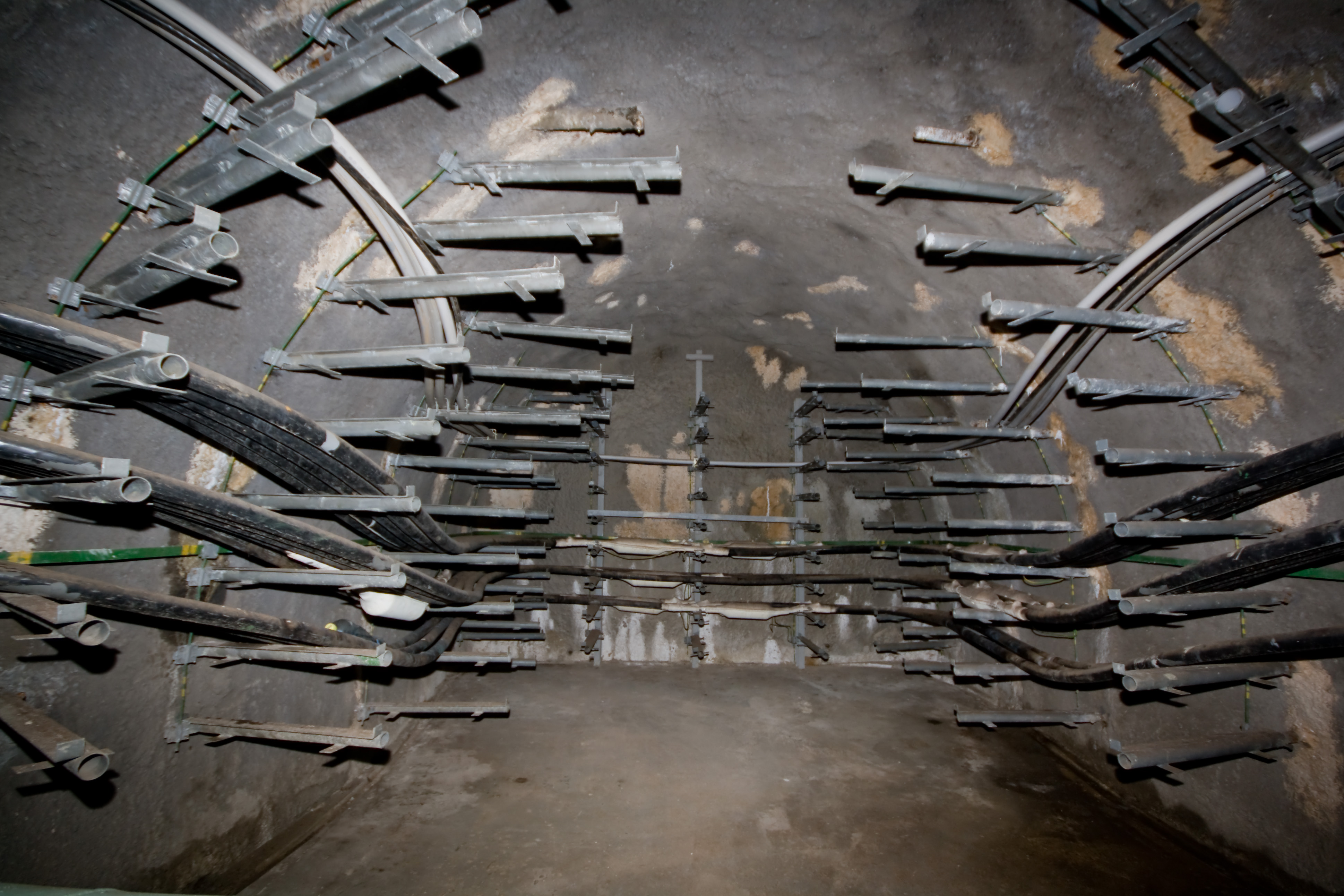 Utility tunnels Prague, Prague Tato série fotografií vznikla za laskavého svolení společnosti Kolektory Praha